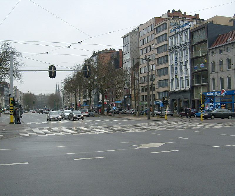 Frankrijklei, Antwerp, Belgium.